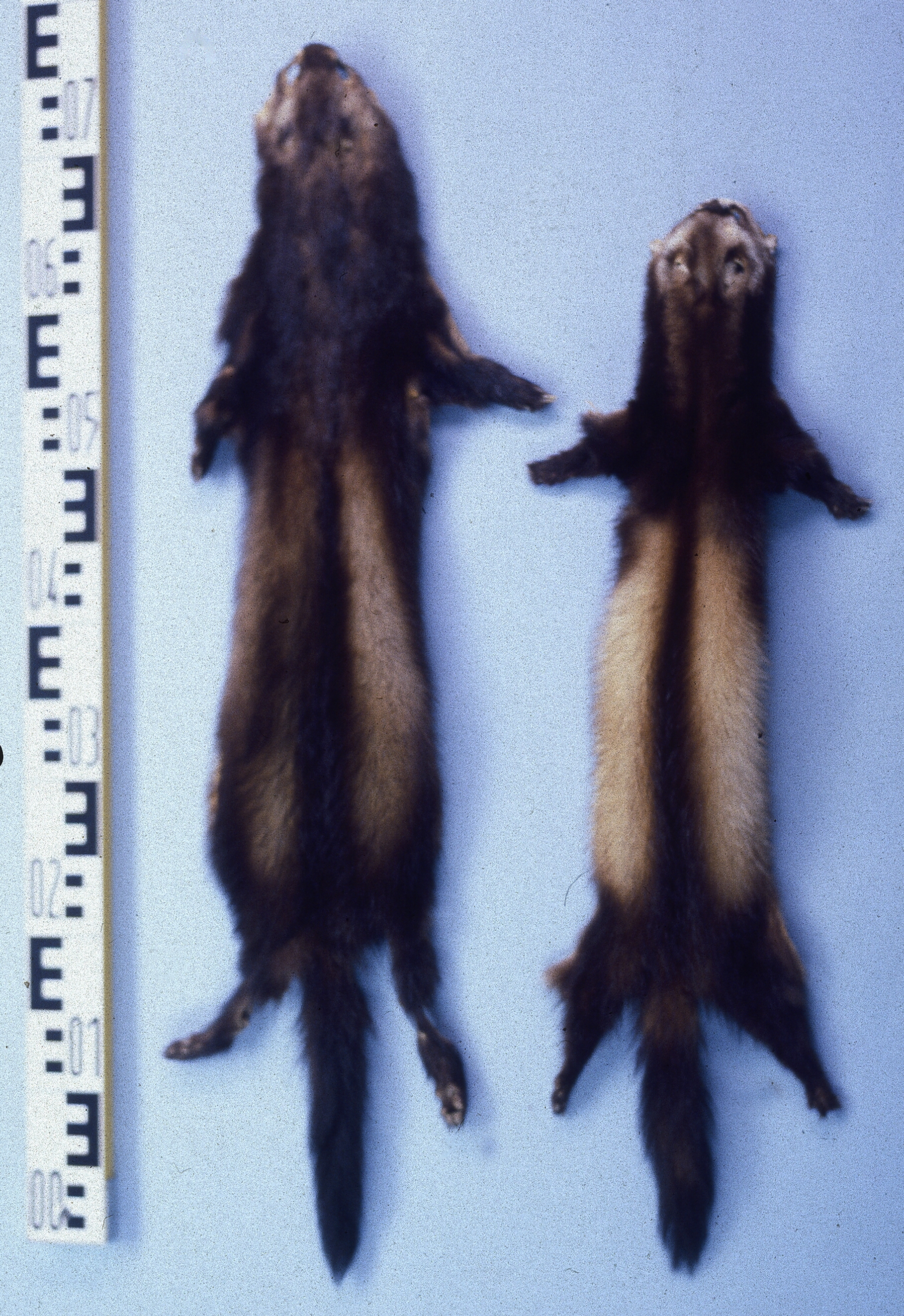 European polecat, yellow or German fitch fur skins (Mustela putorius). Fur skin collection, Bundes-Pelzfachschule, Frankfurt/Main, Germany